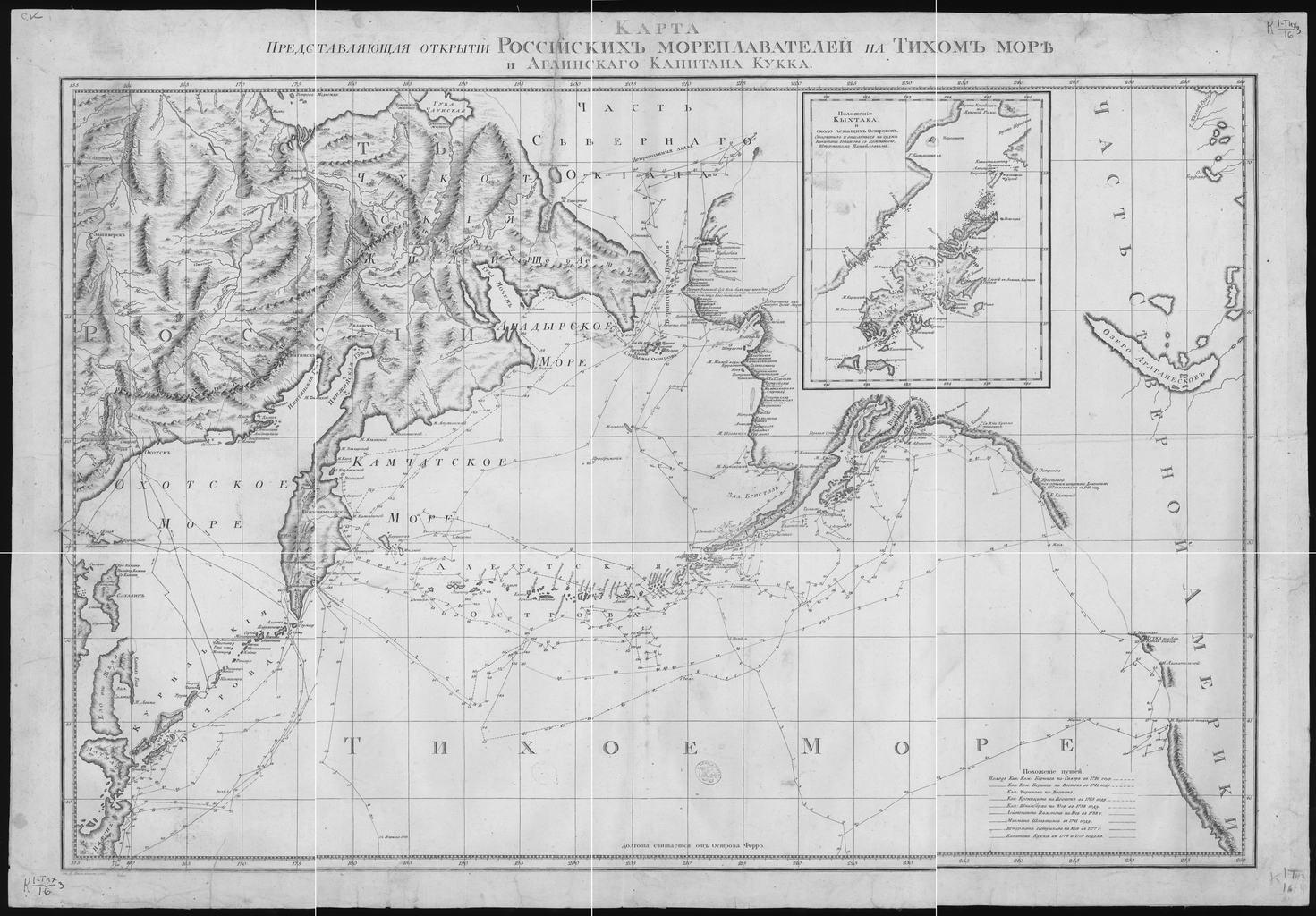 This 1787 map shows the voyages of the leading Russian explorers of the North Pacific: Bering, Chirikov, Krenitsyn, Shpanberg, Walton, Shel'ting, and Petushkov. It also shows the 1778-79 voyage of British Captain James Cook. The route of each voyage is depicted in great detail, with ship locations plotted by the day. Other details on the map include administrative borders, population centers, Chukchi dwellings, and impassable ice. The inset map is of Kodiak Island, Alaska, denoted here by its Russian name of Kykhtak. Discoveries in geography; Discovery and exploration; Pacific Ocean